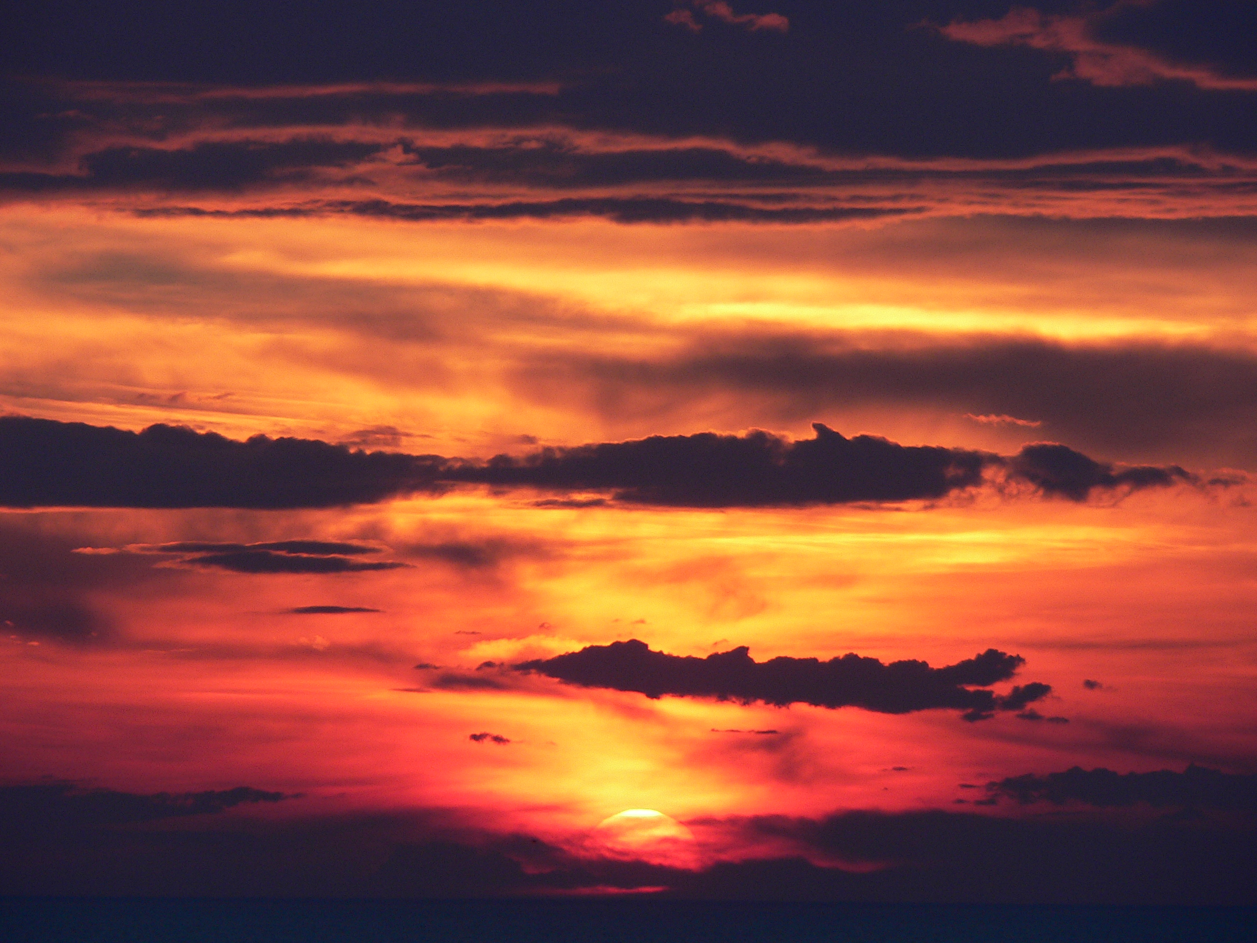 Description: Sunset Type: Red sunset Place: Biarritz Country: France Photographer: © Manuel González Olaechea y Franco Shot date : March, 18th , 2006